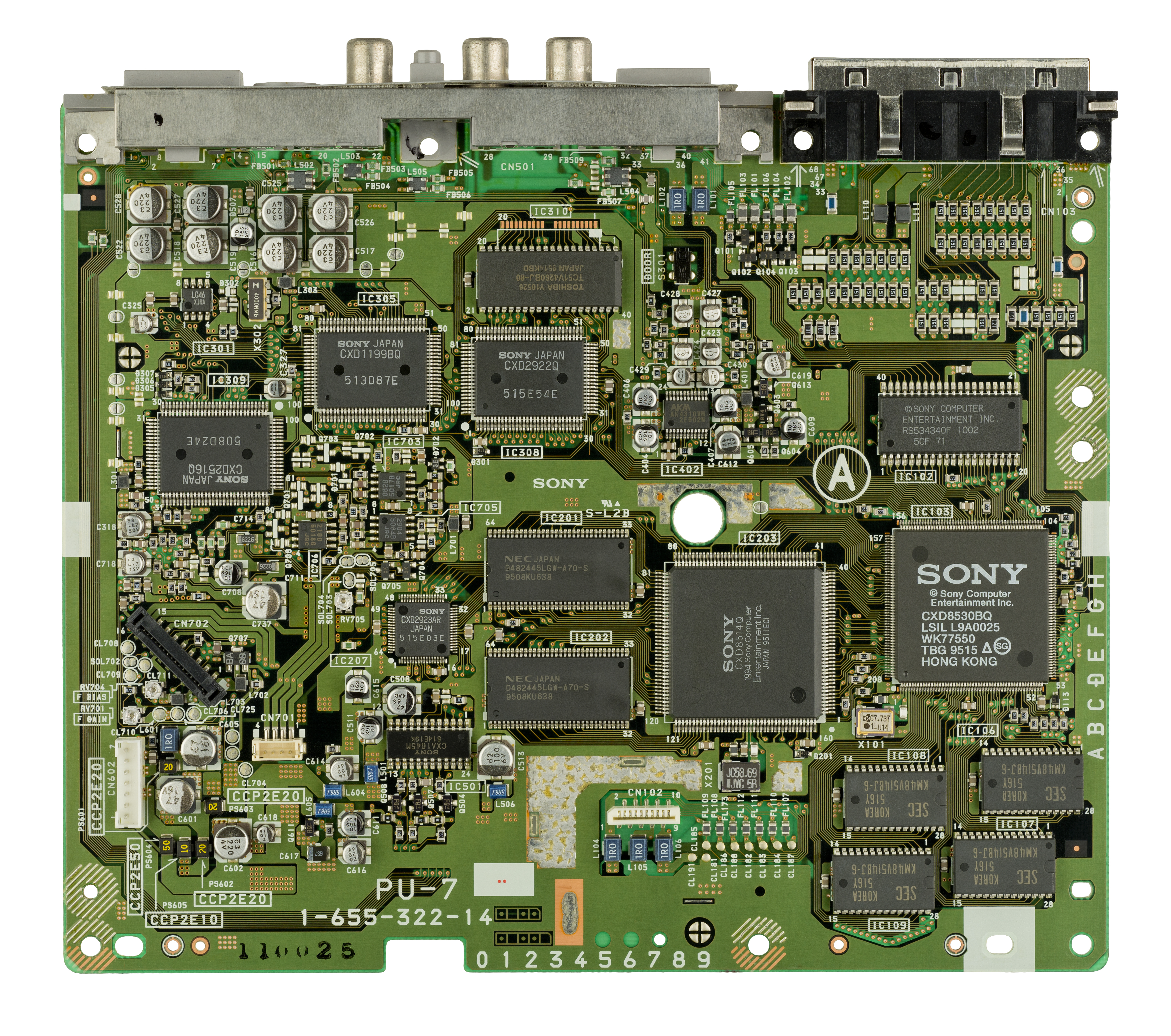 The motherboard for a Sony PlayStation video game console. Specifically, the motherboard of a Japanese SCPH-1000 series system, which is the very first iteration of the PlayStation hardware. The board is much larger than its successors, and includes on-board A/V outputs, including a native S-Video out.